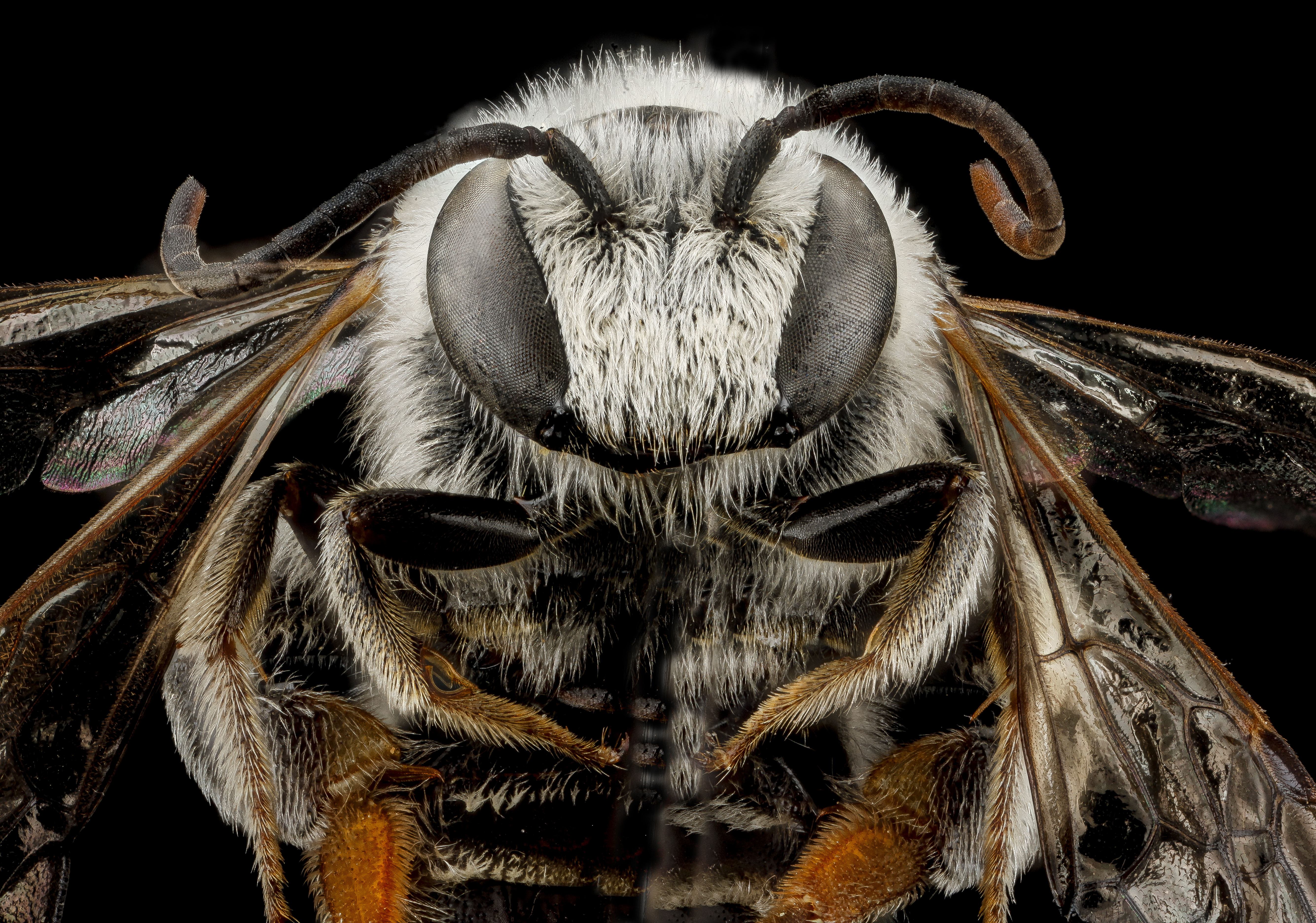 South Dakota, Badlands National Park